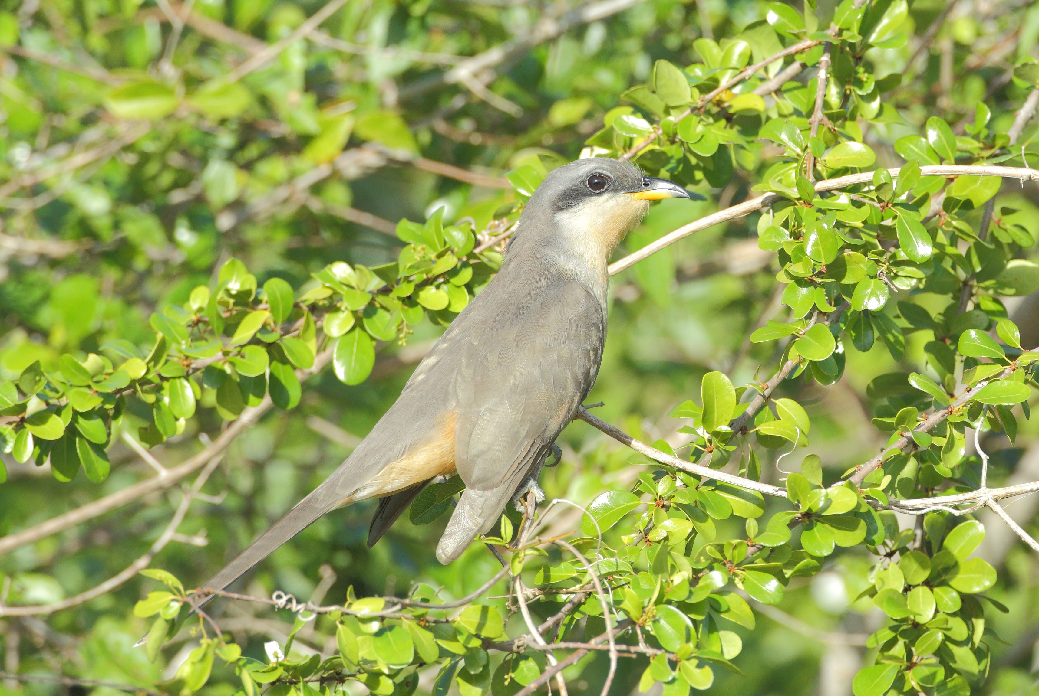 Mangrove Cuckoo Coccyzus minor. Dominican Republic, near La Romana.